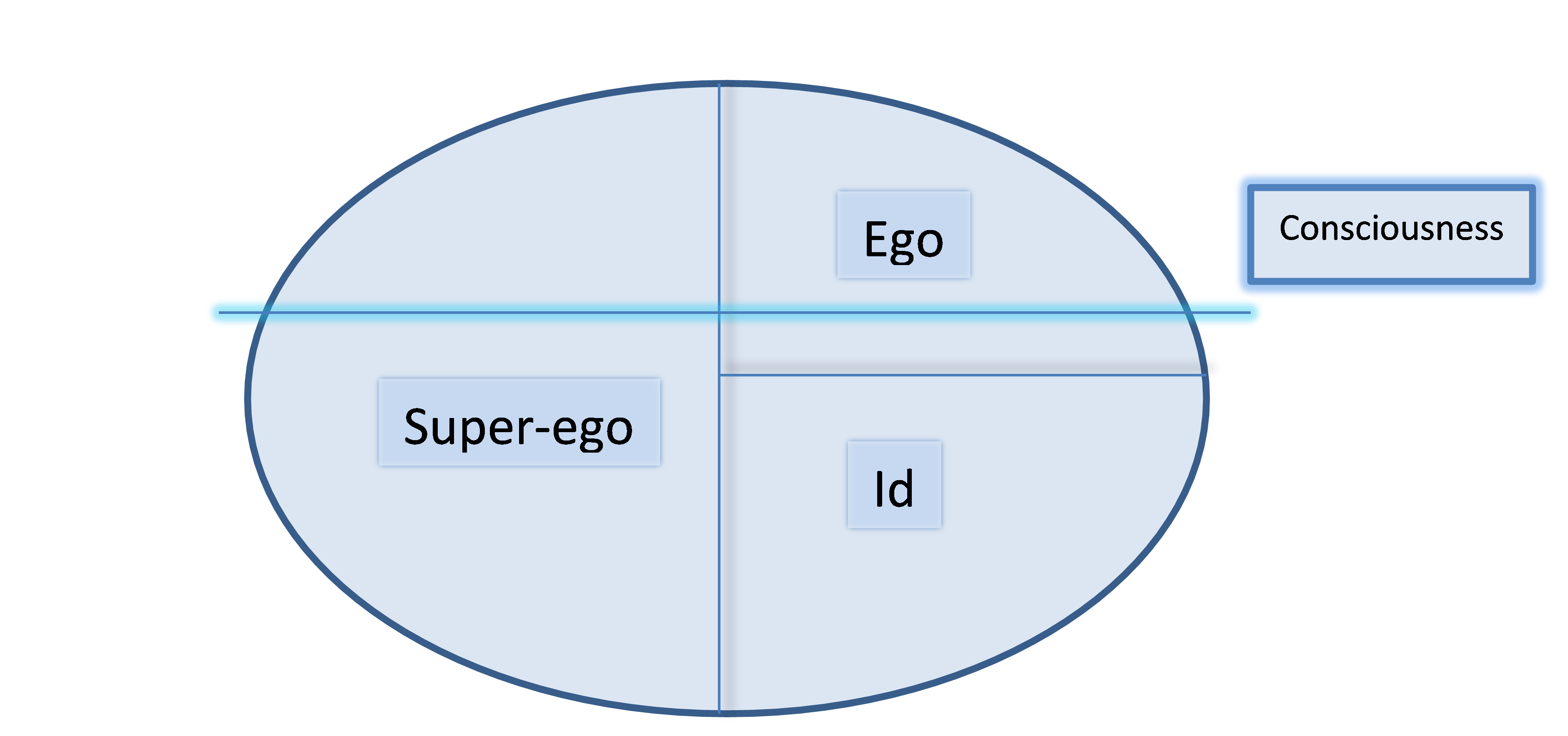 visual representation of the Freud's id, ego and super-ego and the level of consciousness